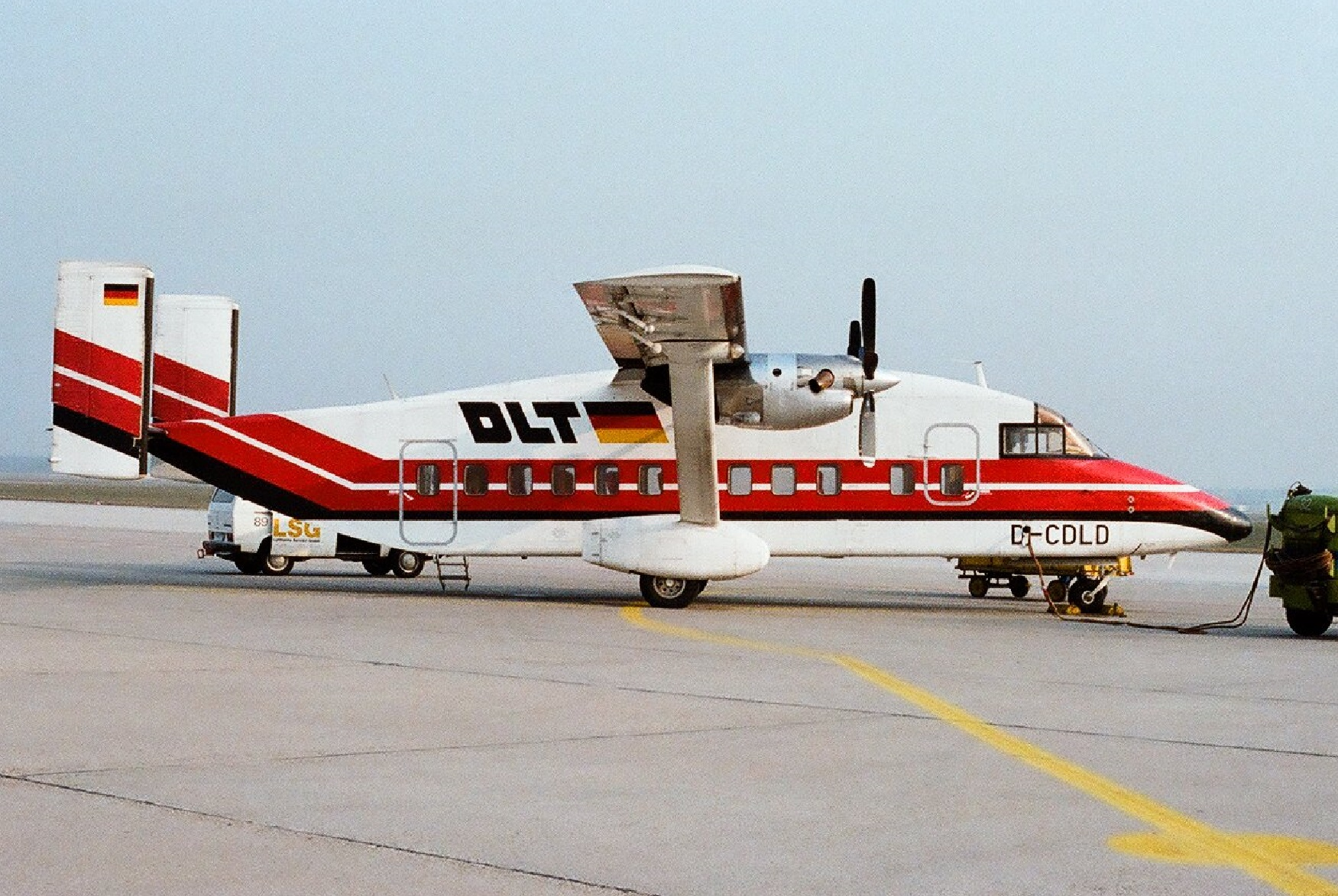 Short 330 D-CDLD of DLT Deutsche Luftverkehrsgesellschaft at Flughafen Frankfurt, 28.2.1983